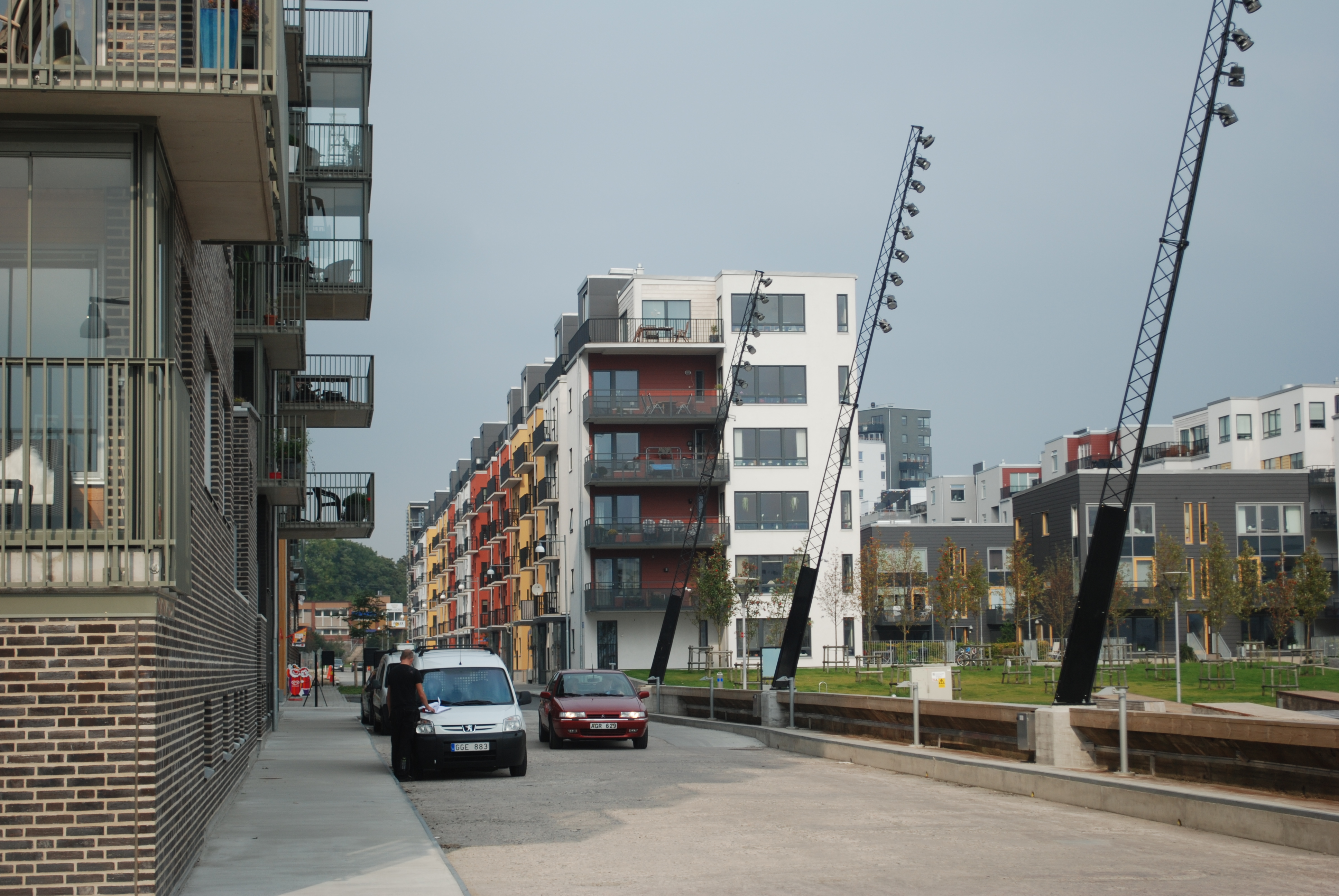 New residential buildings in Eriksberg, a historic shipyard in Gothenburg.